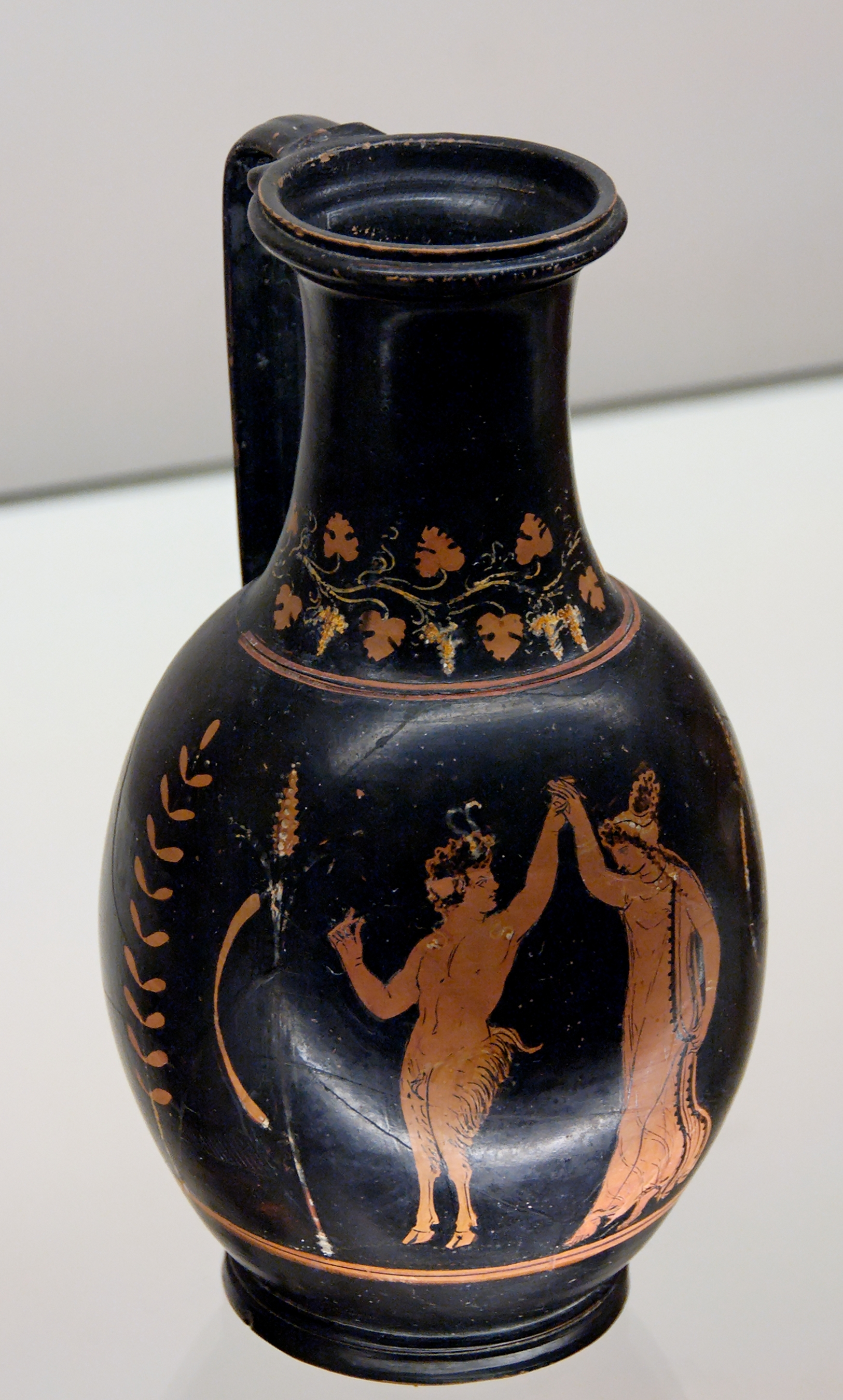 Young Pan and a dancing maenad. Apulian red-figured olpe.